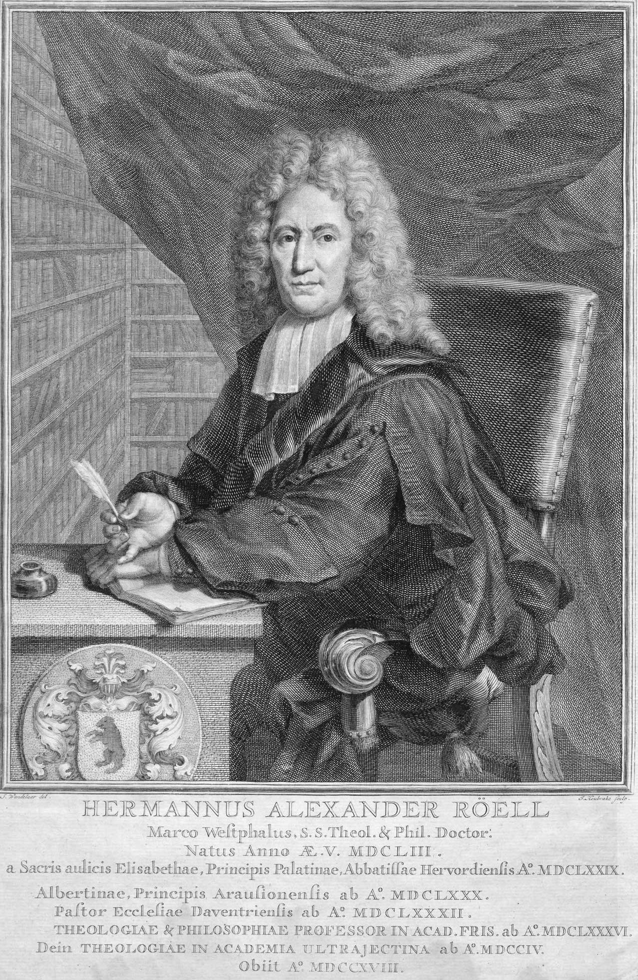 Hermann Alexander Roëll (1653-1718) Dutch Reformed theologian